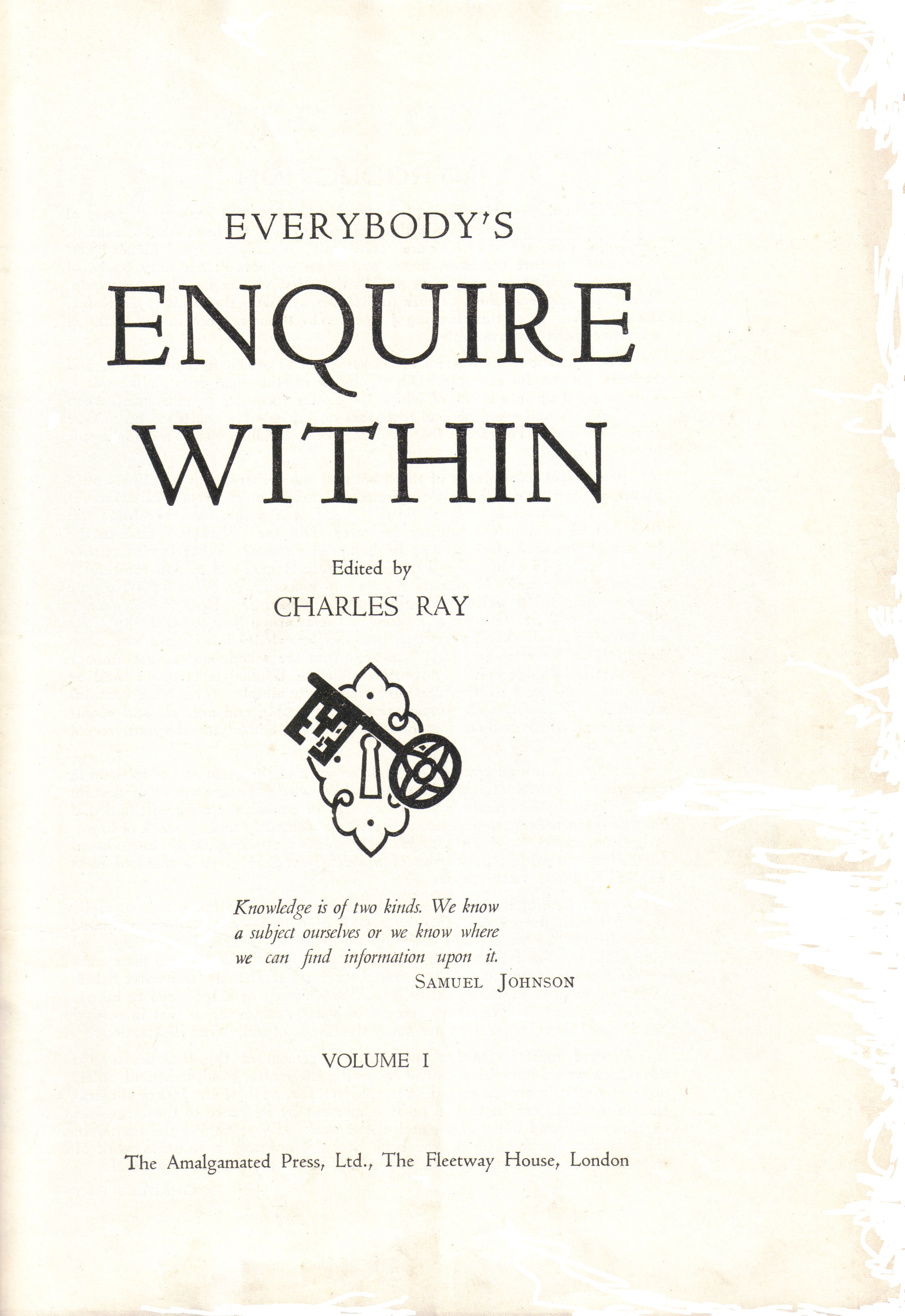 This title page is not of any significant design and it is only to be used only for a Wikipedia article about this book "Everybody's Enquire Within" The object of using it is to show that the book did exist. It would be absurd to think that such a design free title page would have any copyright interest to anyone living or dead. I have had great difficulty obtaining information about the editor Charles Ray to create a biography of him and his amazing editorial work. It would be virtually impossible to ascertain the staff members used by him as they were obviously employed as journalists, or in other posts, and no record survives as how such work was organised.